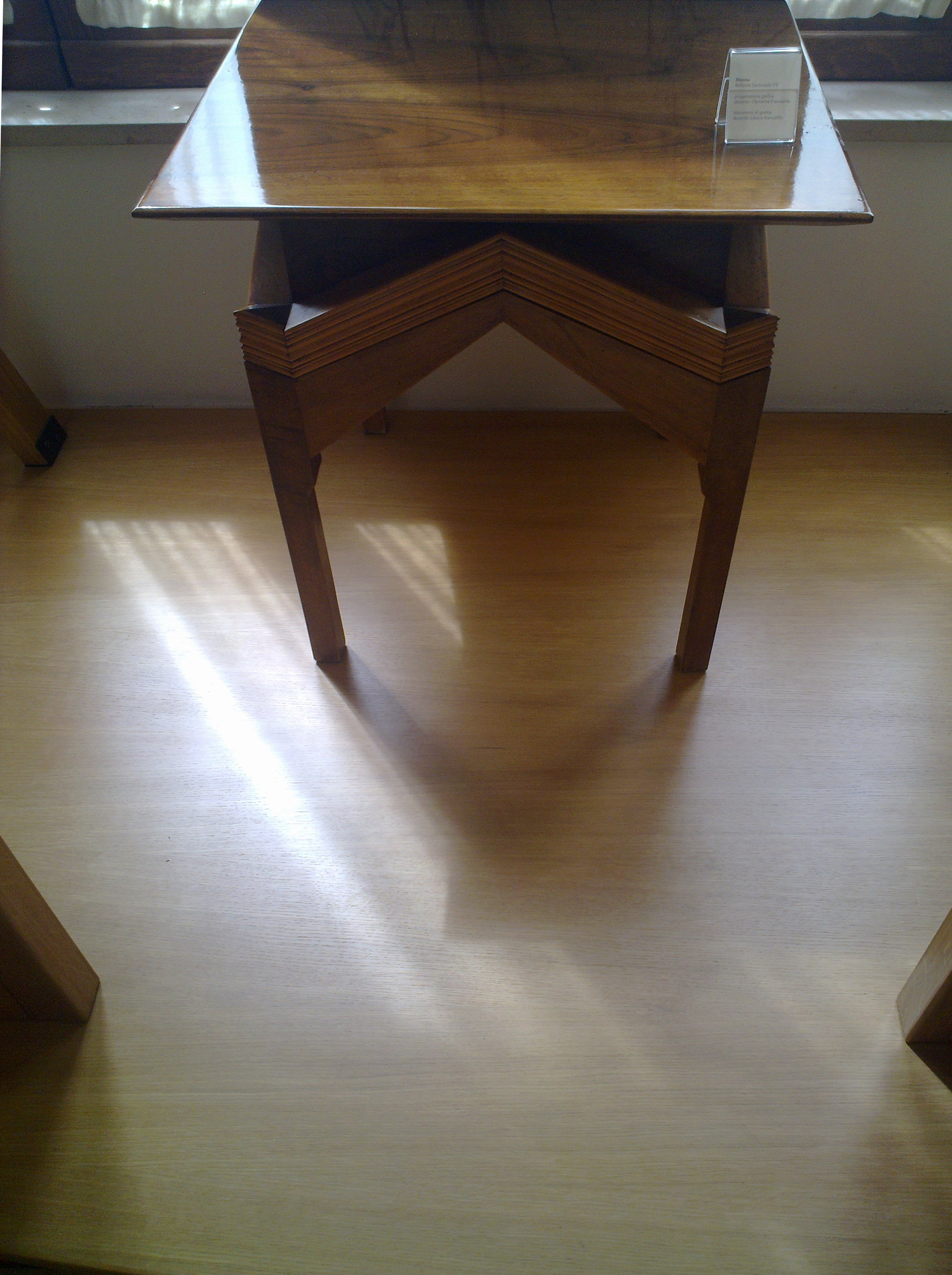 Cambellotti table, acquedotto pugliese building, Bari, Italy.